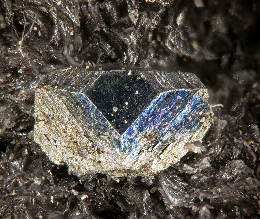 Fülöppite Locality: Dealul Crucii Adit (Crucii Hill; Kreuzberg; Kereszthegy), Baia Mare (Nagybánya), Maramureș Co., Romania Field of View: 1.5 mm. Largest Crystal Size: 1 mm. Collection and photograph Christian Rewitzer